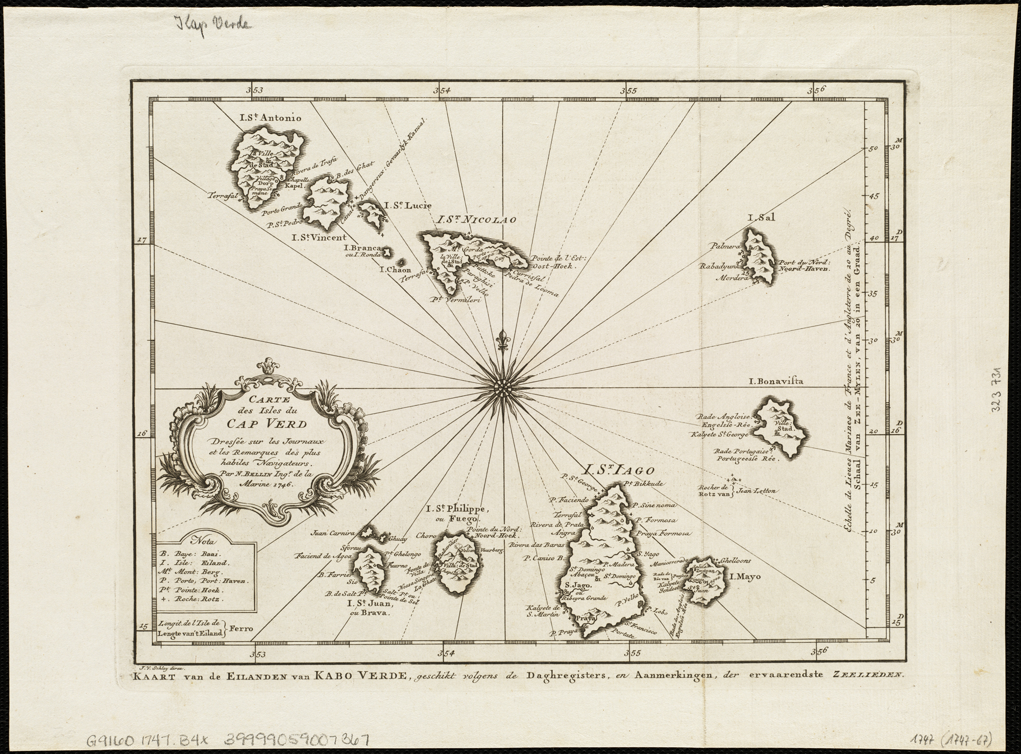 Zoom into this map at . Author: Bellin, Jacques Nicolas Publisher: Hondt, Pieter de Date: 1747 Location: Cape Verde Dimension 20x27cm Scale: [ca. 1:1 600 000] Call Number: G9160 1747 .B4x